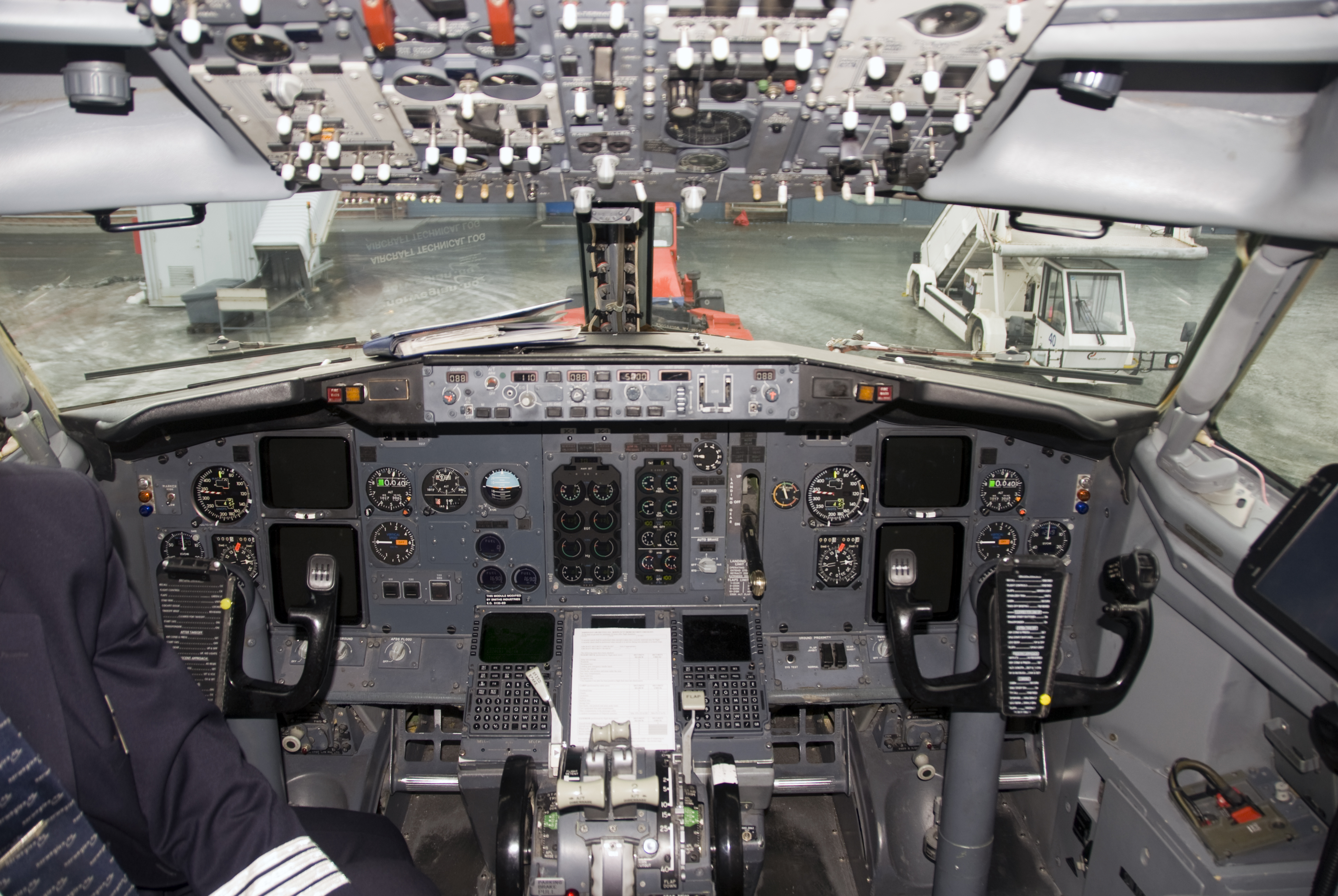 Cockpit of a Boeing 737-300 LN-KKU operated by Norwegian Air Shuttle